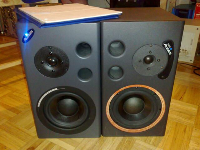 Side-by-side original M1 (right) and Mk2 version (left) Alesis M1 Active Alesis M1 Active MkII